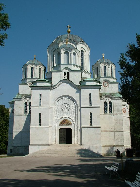 Orthodox Church in Topola, Serbia/L'église orthodoxe de Topola, Serbie